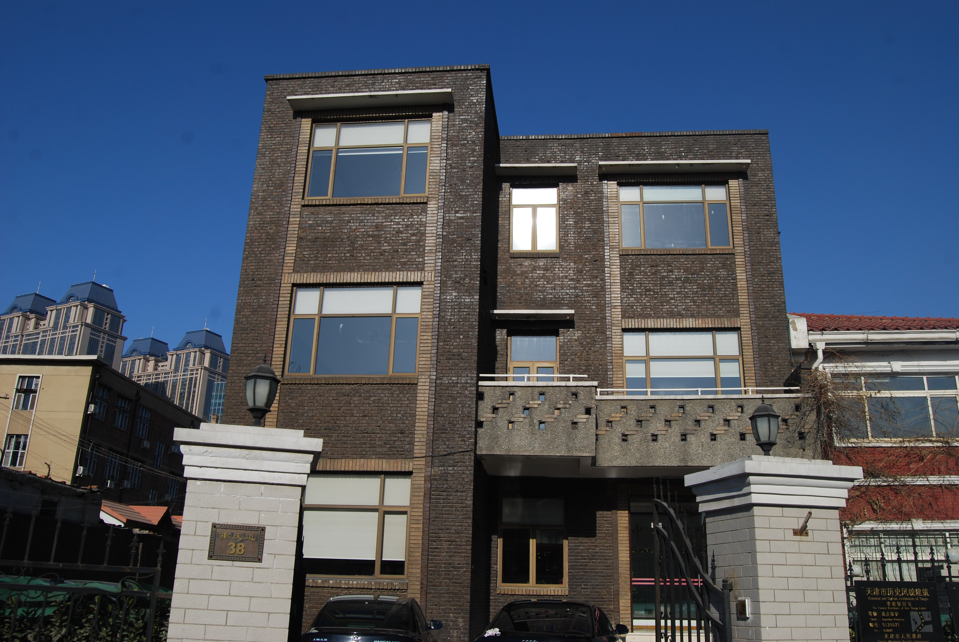 Former residence of Li Airui in Chongqing Dao No. 38, Heping District, Tianjin